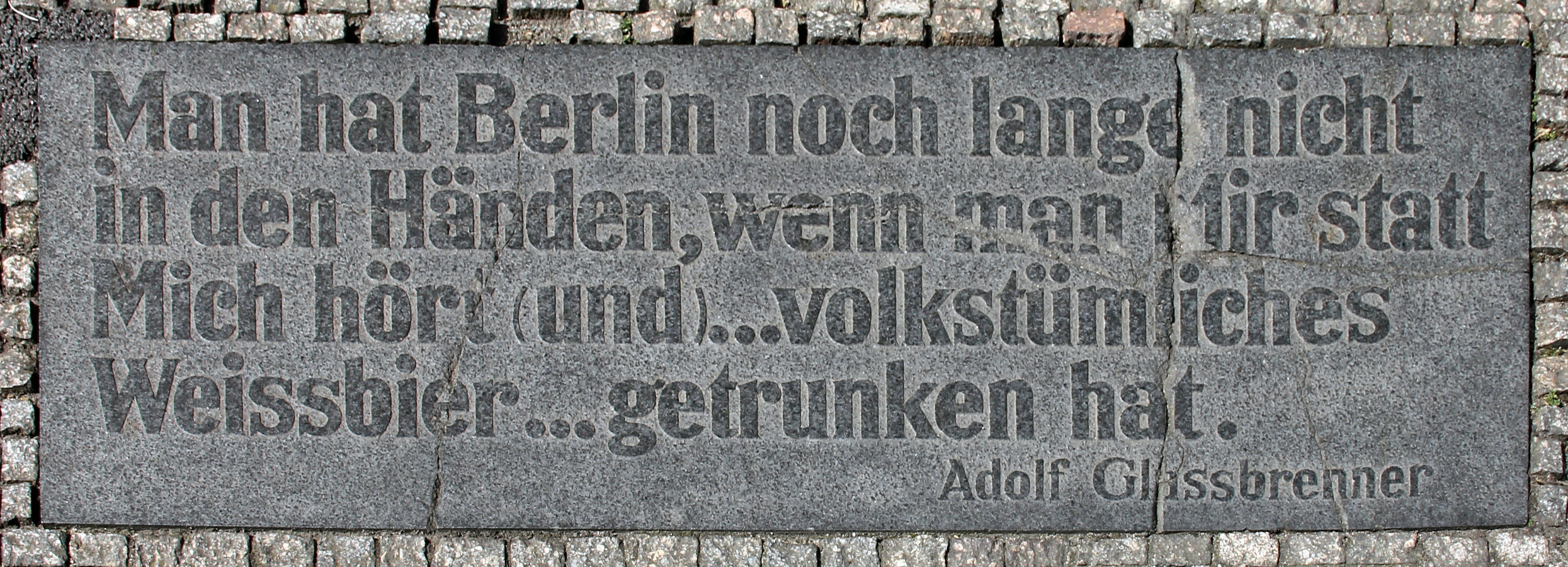 Memorial plaque, Adolf Glaßbrenner, Gendarmenmarkt 4, Berlin-Mitte, Deutschland